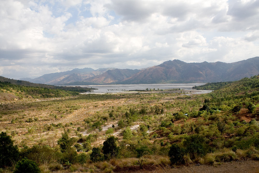 Bucao River, Baquilan, Zambales, Philippines